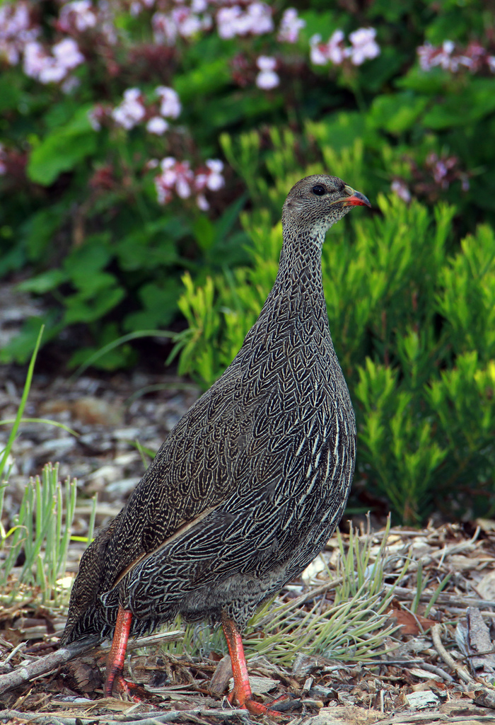 A Cape Francolin at Kirstenbosch National Botanical Garden, South Africa.